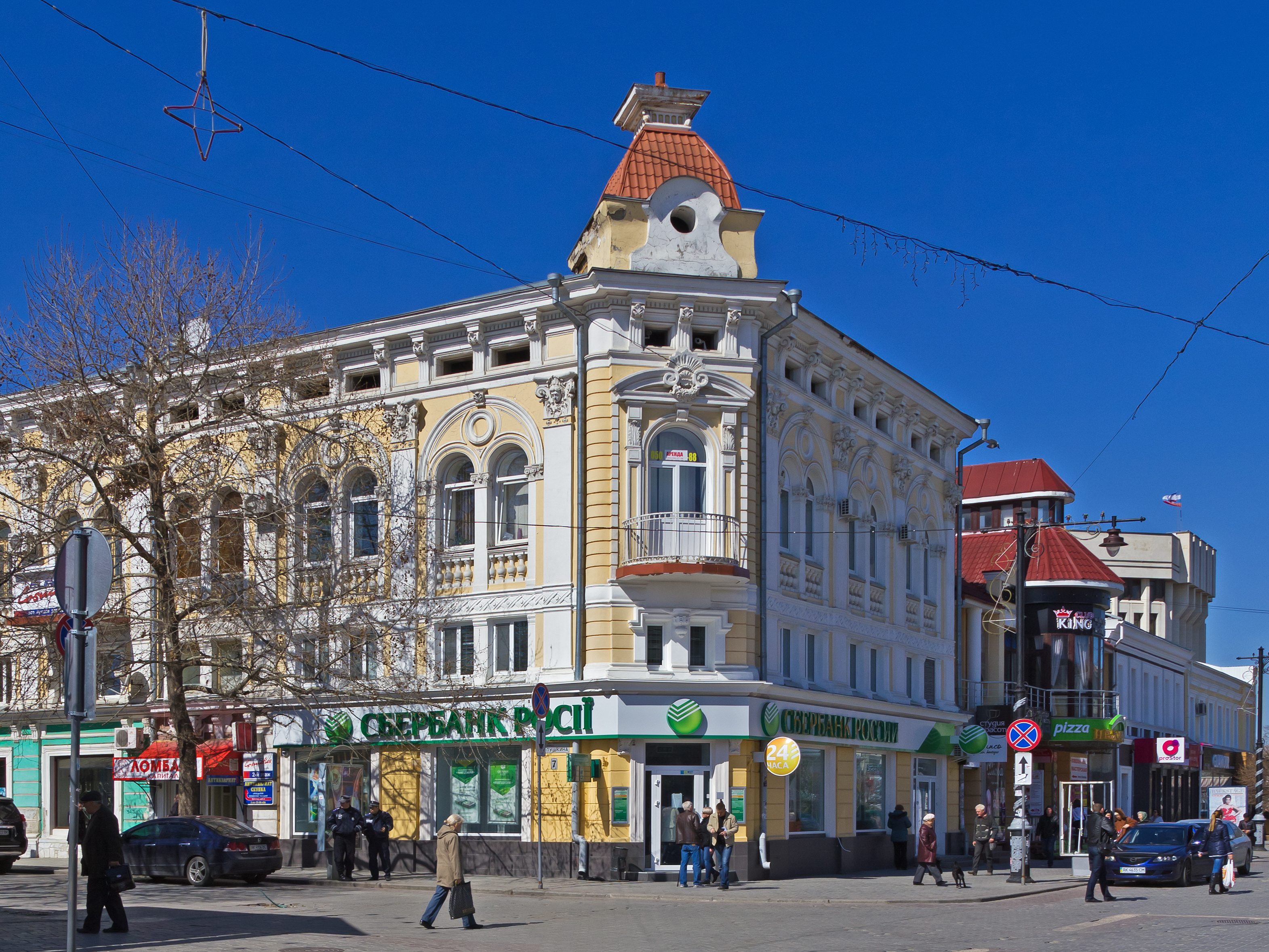 Old building at the Karl Marx Street in Simferopol, Crimean Peninsula.